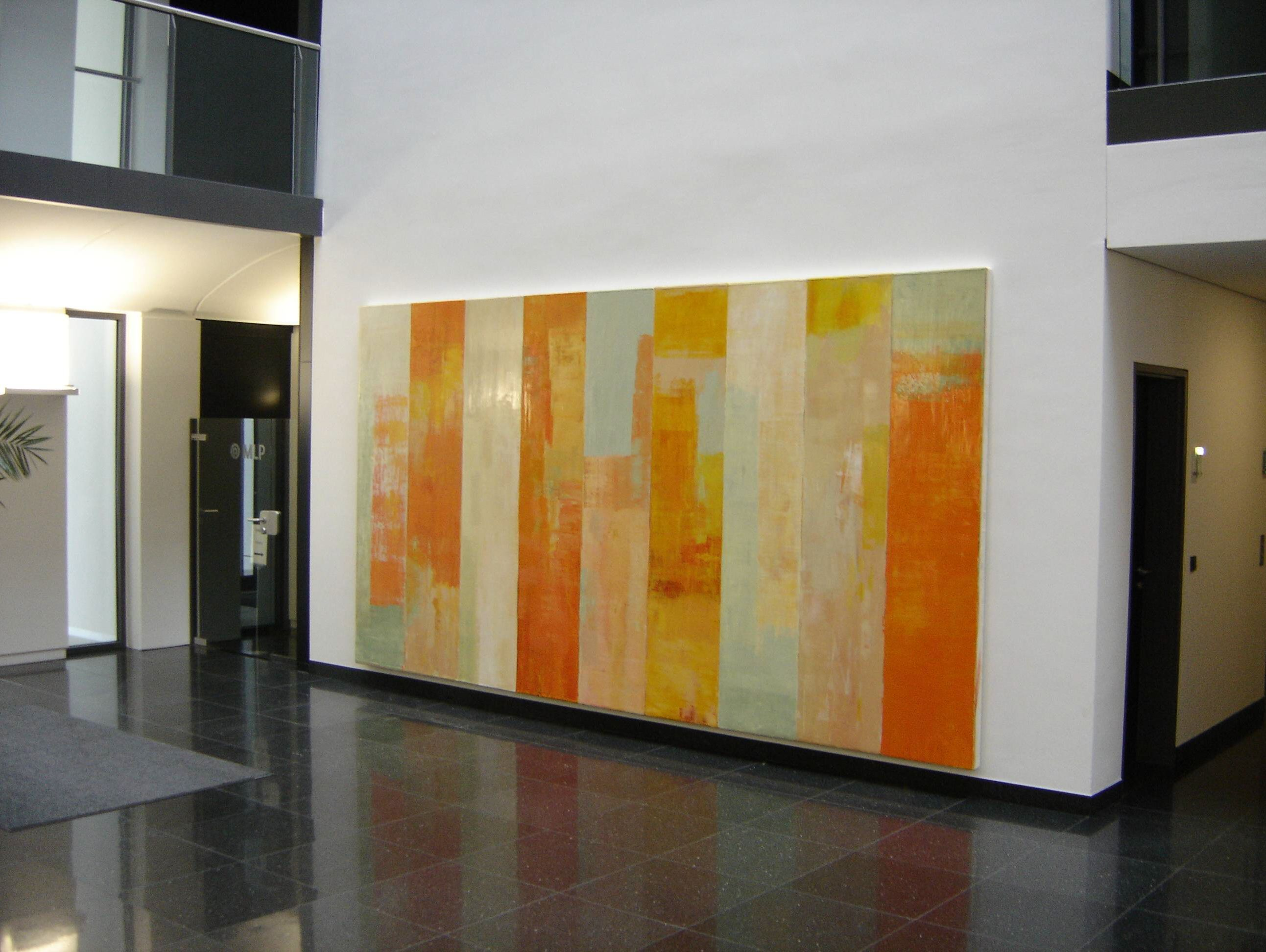 Title "#512', 2007, Oil on Canvas, 250 x 500 cm, foyer of a law company in Mannheim, Germany